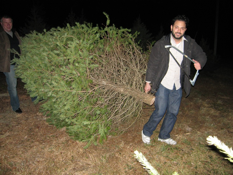 People returning from a typical "choose-and-cut" Christmas tree farm with the tree they harvested.